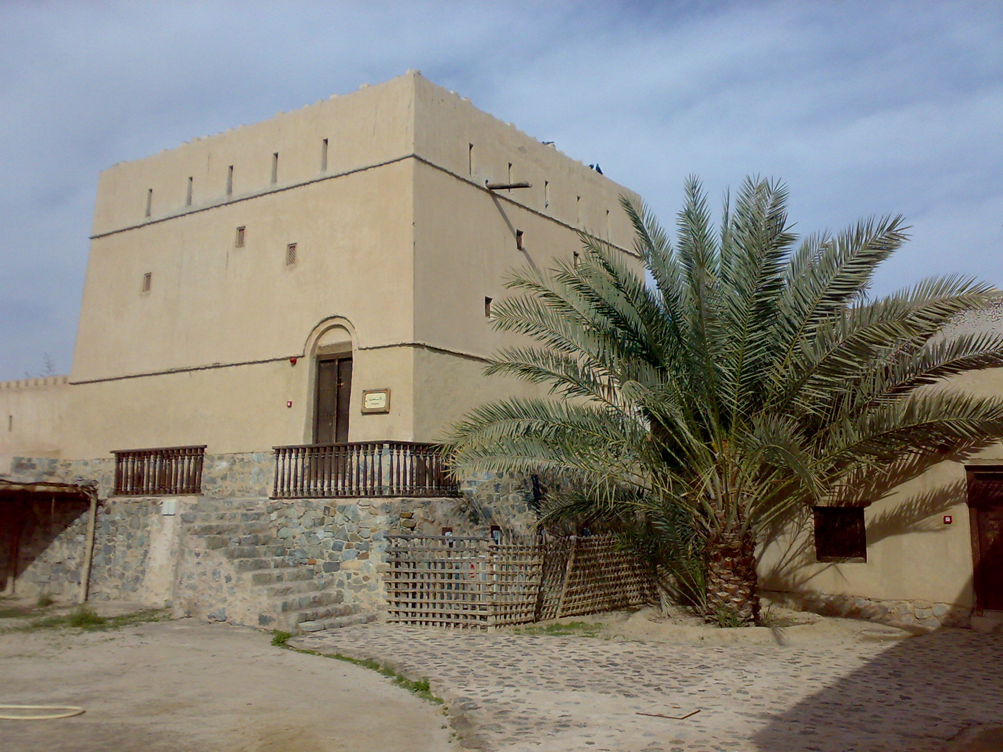 Hatta Fort, "Al Husen", built around 1880, Hatta city, UAE.